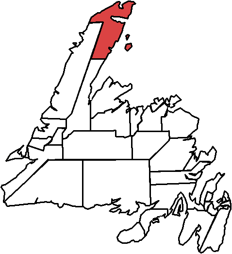 Map based on work by Earl Andrew, from maps used in 2007 elections